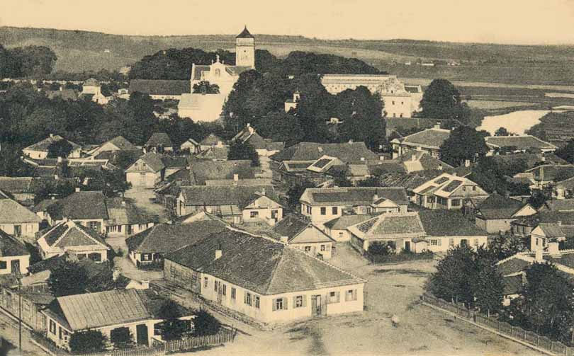 A view in Old Town.